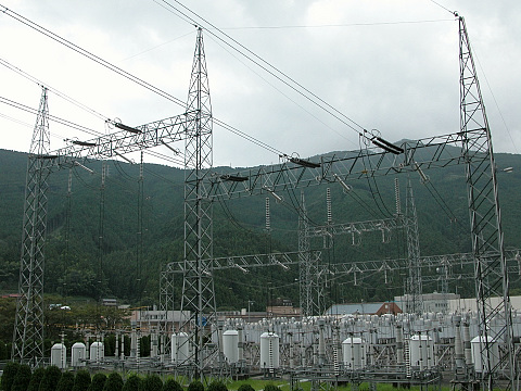 Sakuma Frequency. Converter Station. (Sakuma, Tenryu-ku, Hamamatsu-city, Sizuoka-prefecture, Japan)